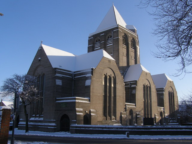 St. Paul's church, Stoneycroft St. Paul's church stands on Derby Lane and was designed by the architect of Liverpool cathedral Giles Gilbert Scott. It was consecrated in 1916.